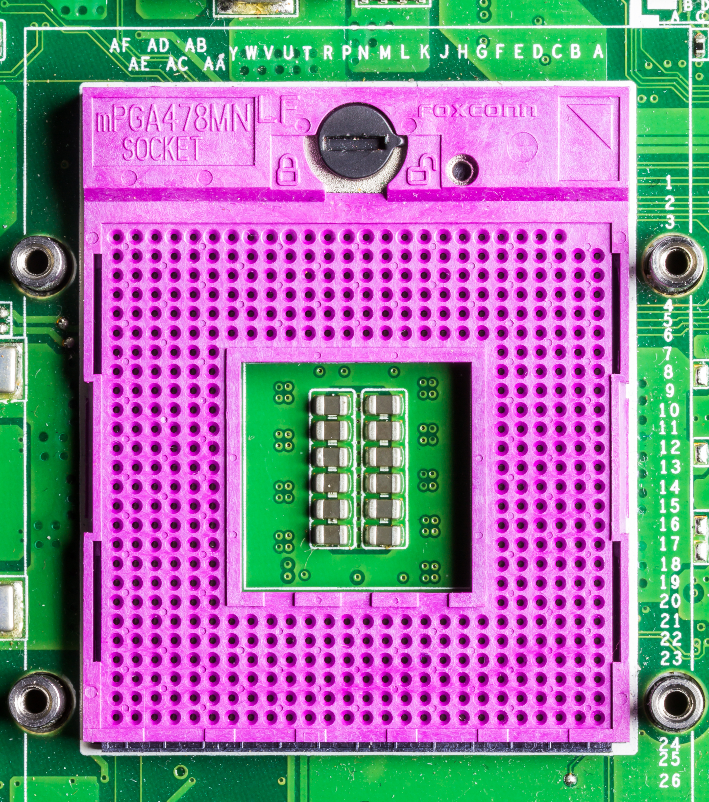 Socket P mPGA478MN, made by Foxconn